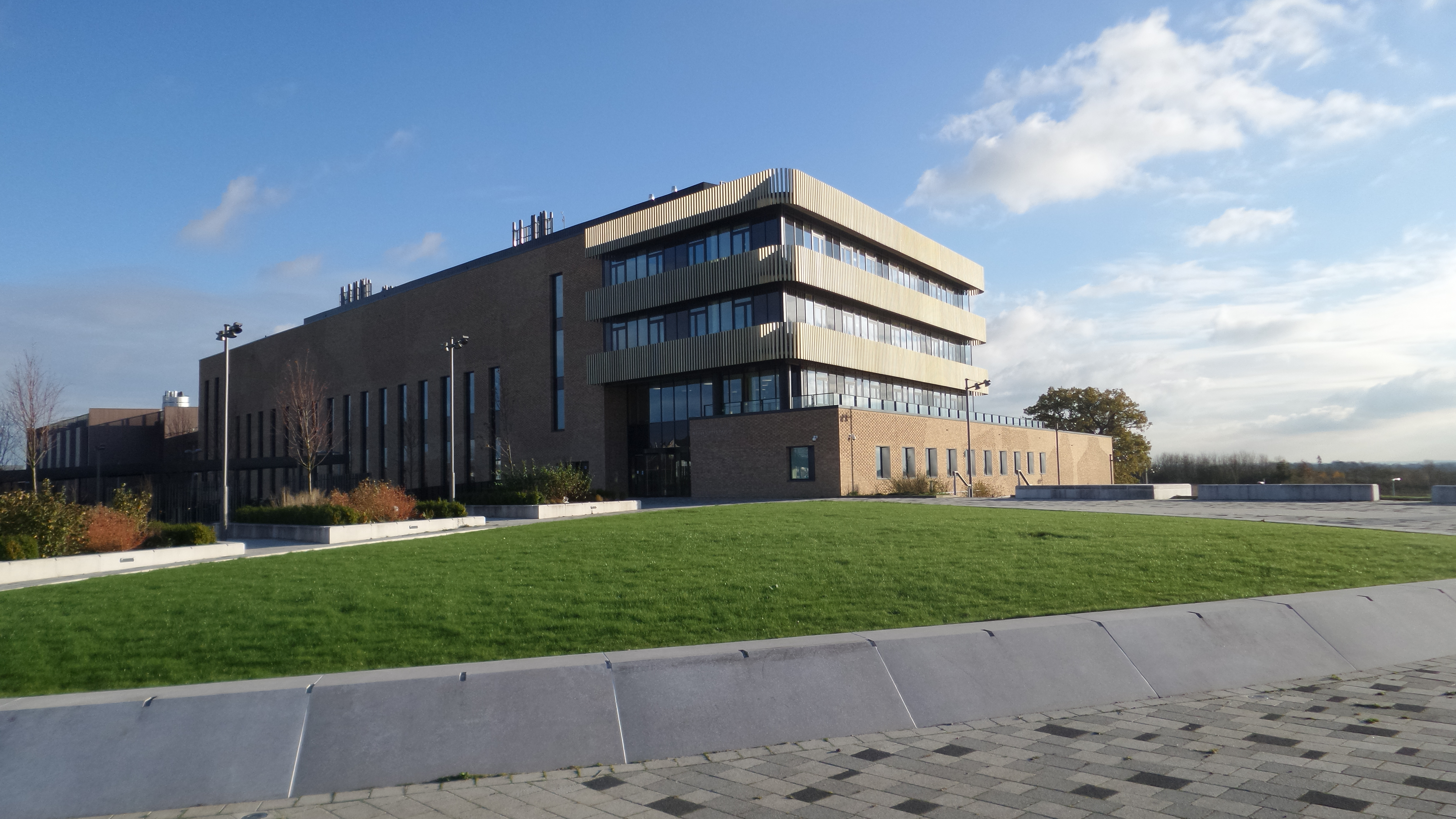 Department of Materials Science and Metallurgy, 27 Charles Babbage Road, Cambridge, CB3 0FS, UK